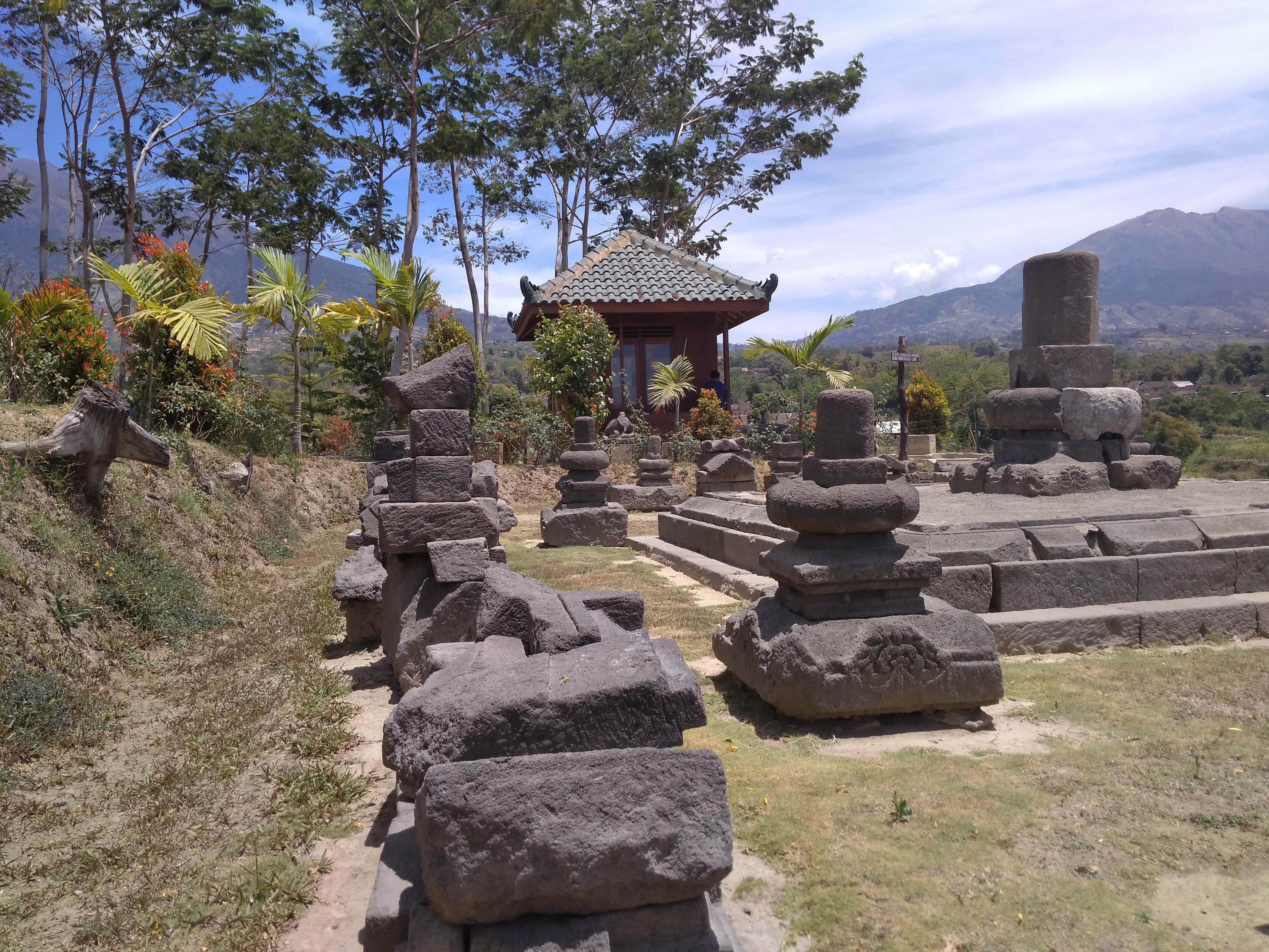 Ruin of Candi Sari Cepogo